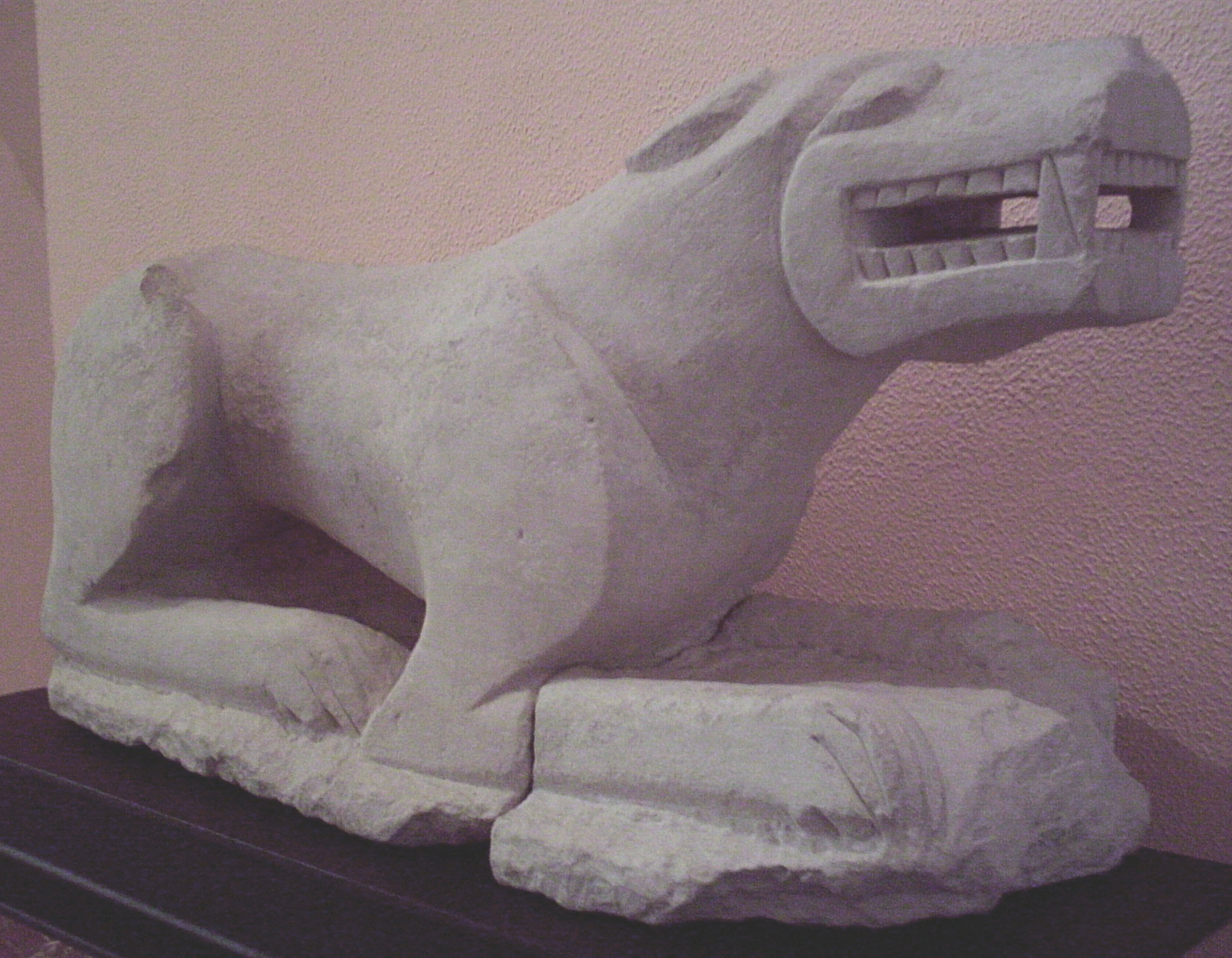 Iberian sculpture representing a menacing lain-down lioness, as a part of a funerary monument, symbolically protecting its tomb.